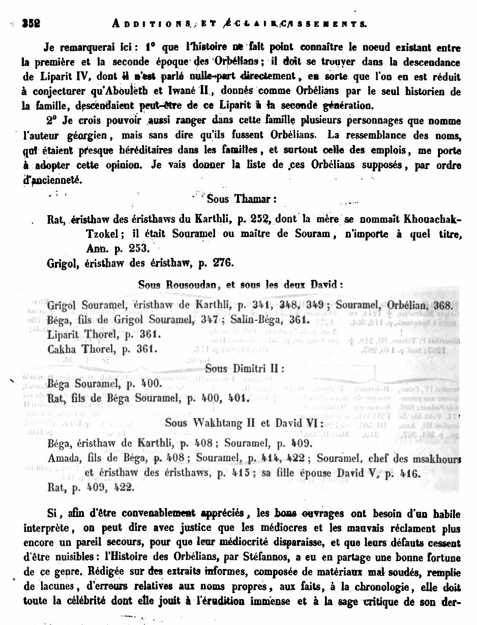 List of other purported members of the Orbeli house according to M. Brosset (1851)